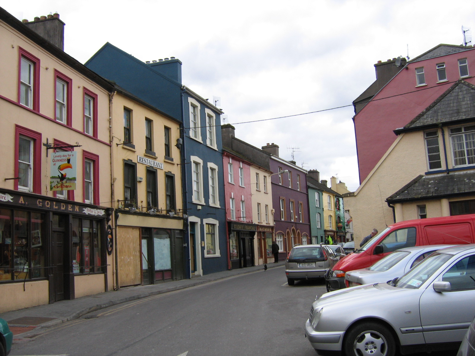 Macroom, County Cork, Republic of Ireland.